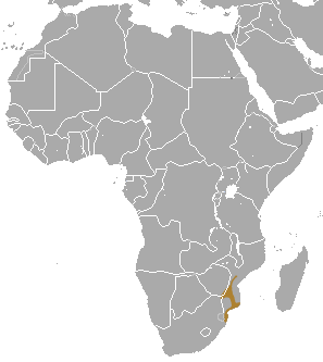 Yellow Golden Mole (Calcochloris obtusirostris) range